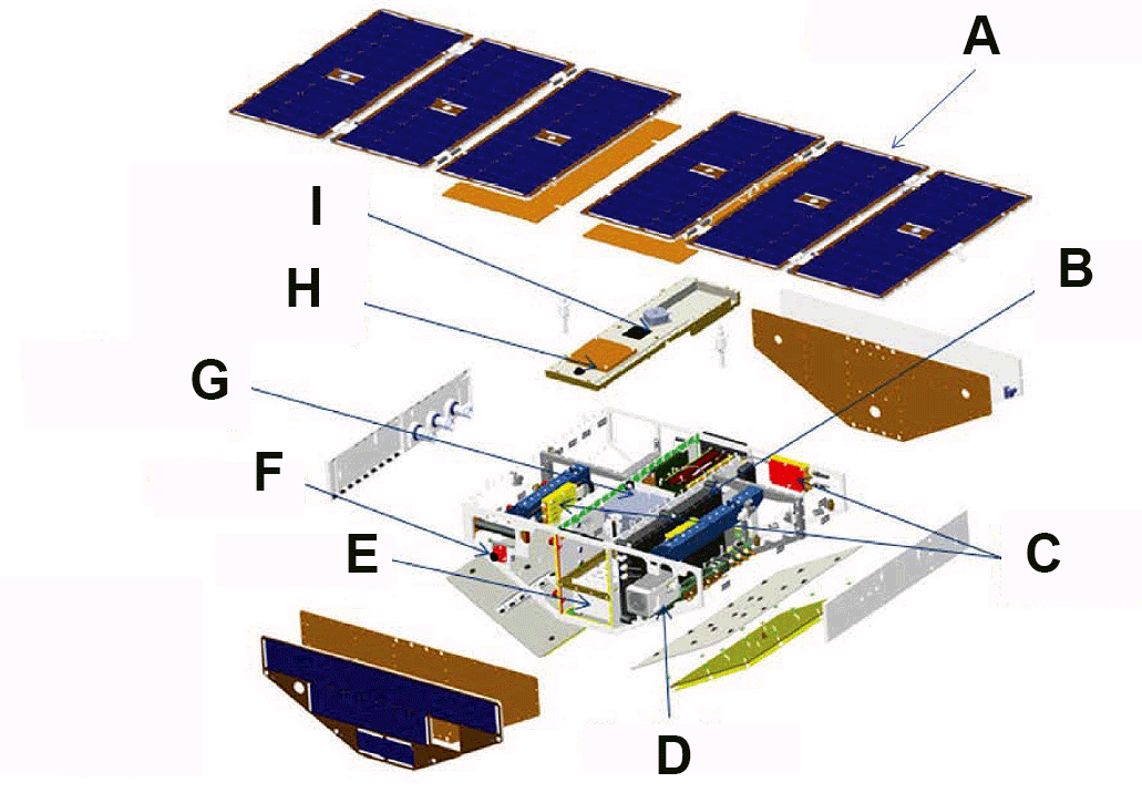 NASA's weather satellite CYGNSS (Cyclone Global Navigation Satellite System) Drawing